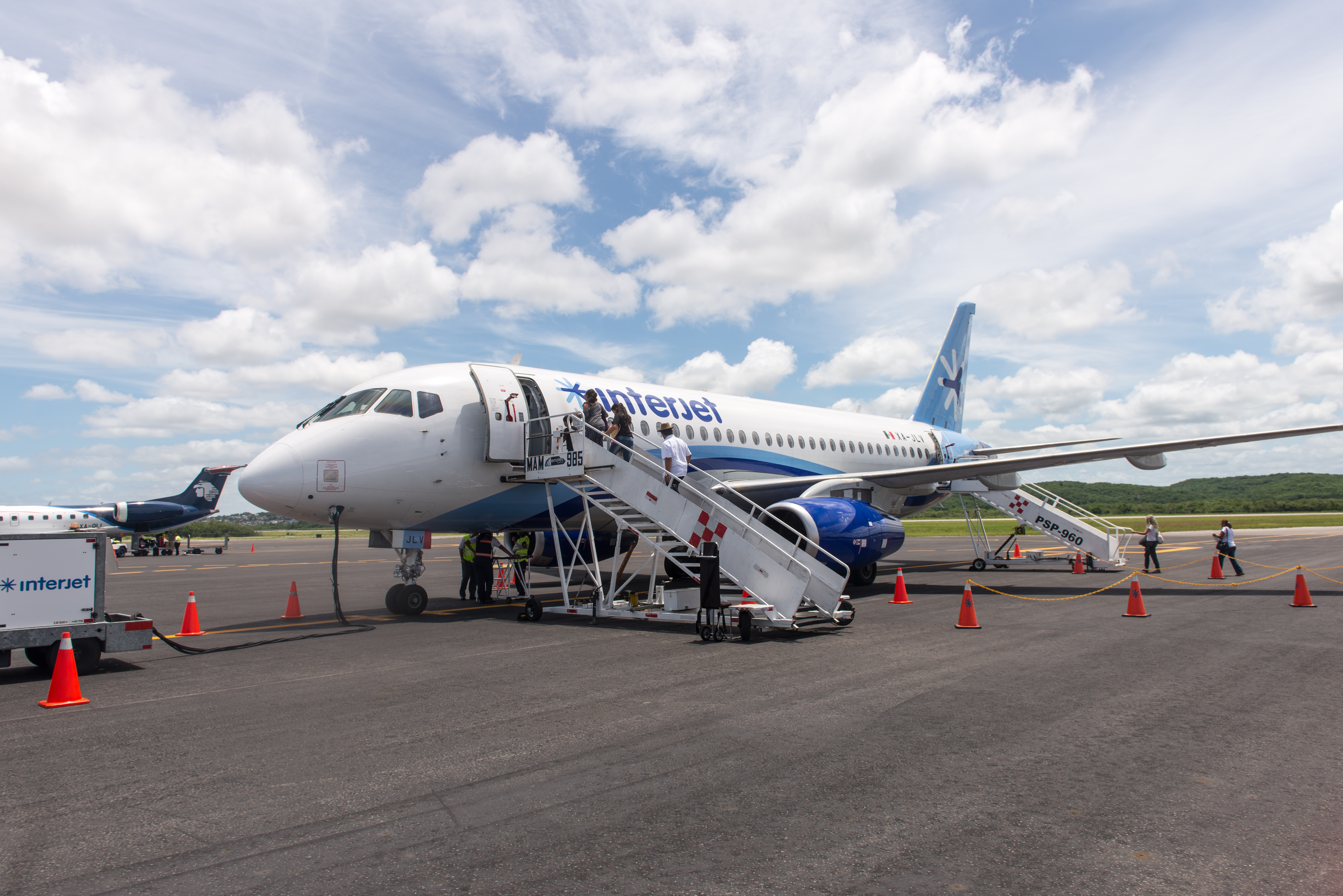 Suchoi Superjet 100 at Airport Campeche, Yucatan, Mexico